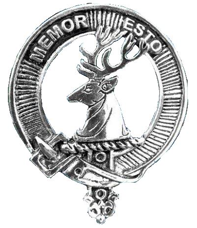 Clan MacPhail crest